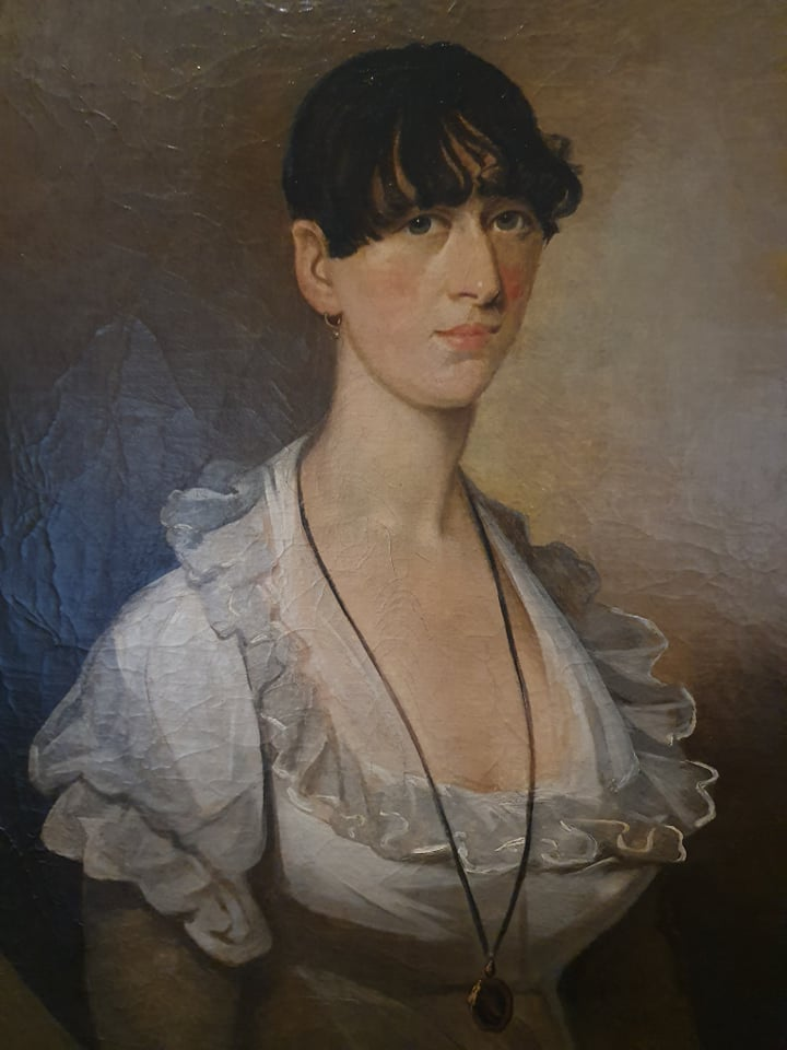 Mary Anne Holmes, Irish poet and writer. Portrait by Thomas Hickey (1741–1824), held in the collections of Kilmainham Gaol.